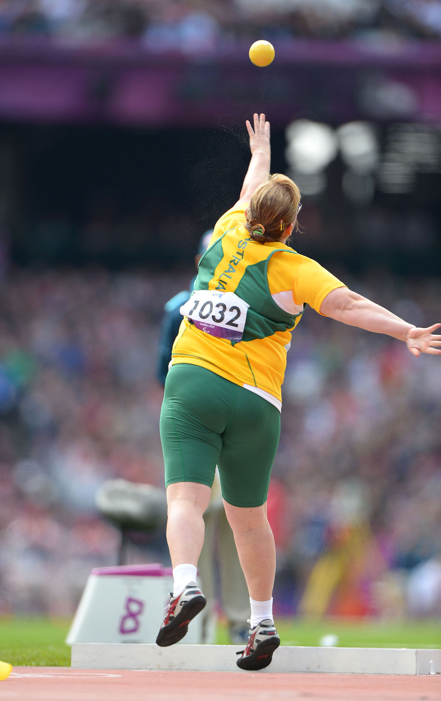 Photograph of Australian Paralympic team member Katherine Proudfoot at the 2012 Summer Paralympic Games in London